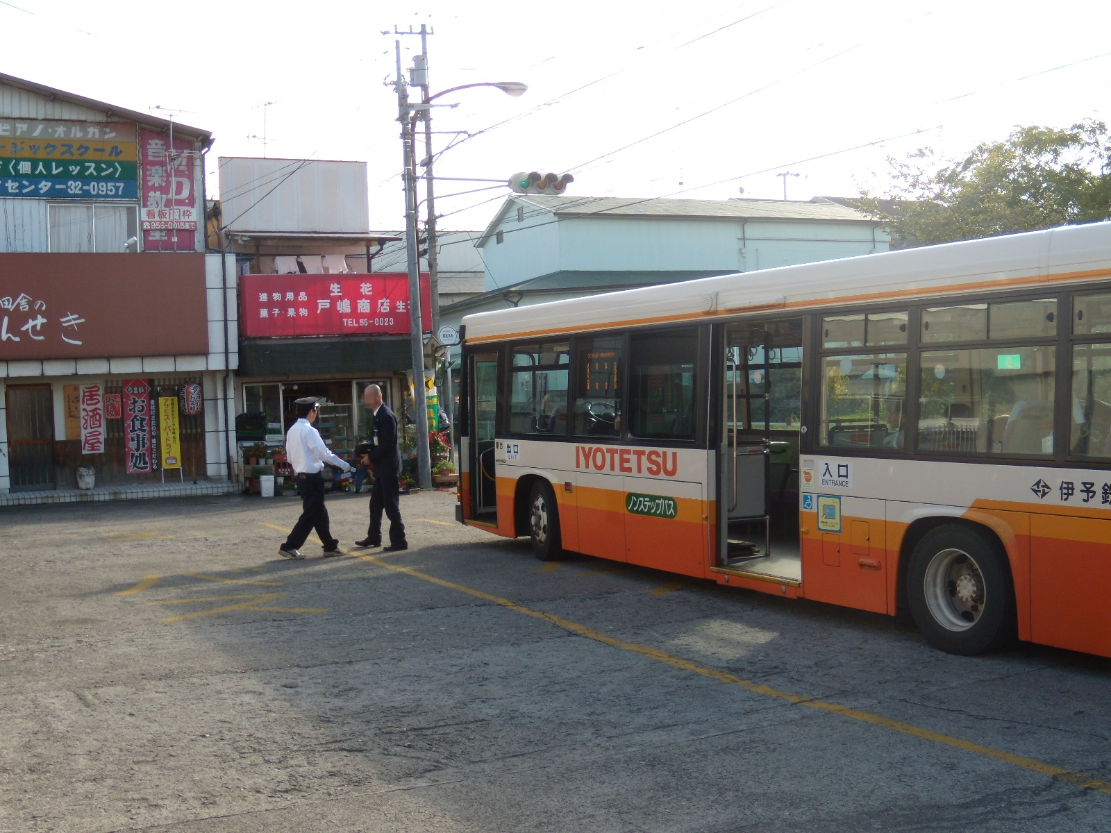 Bus driver change at Iyo Railway Morimatsu Office